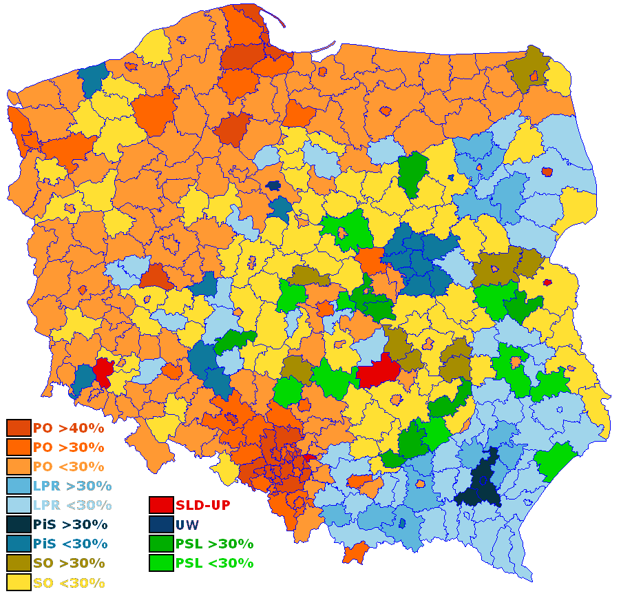 European Parliament election, 2004 (Poland) - results by counties.